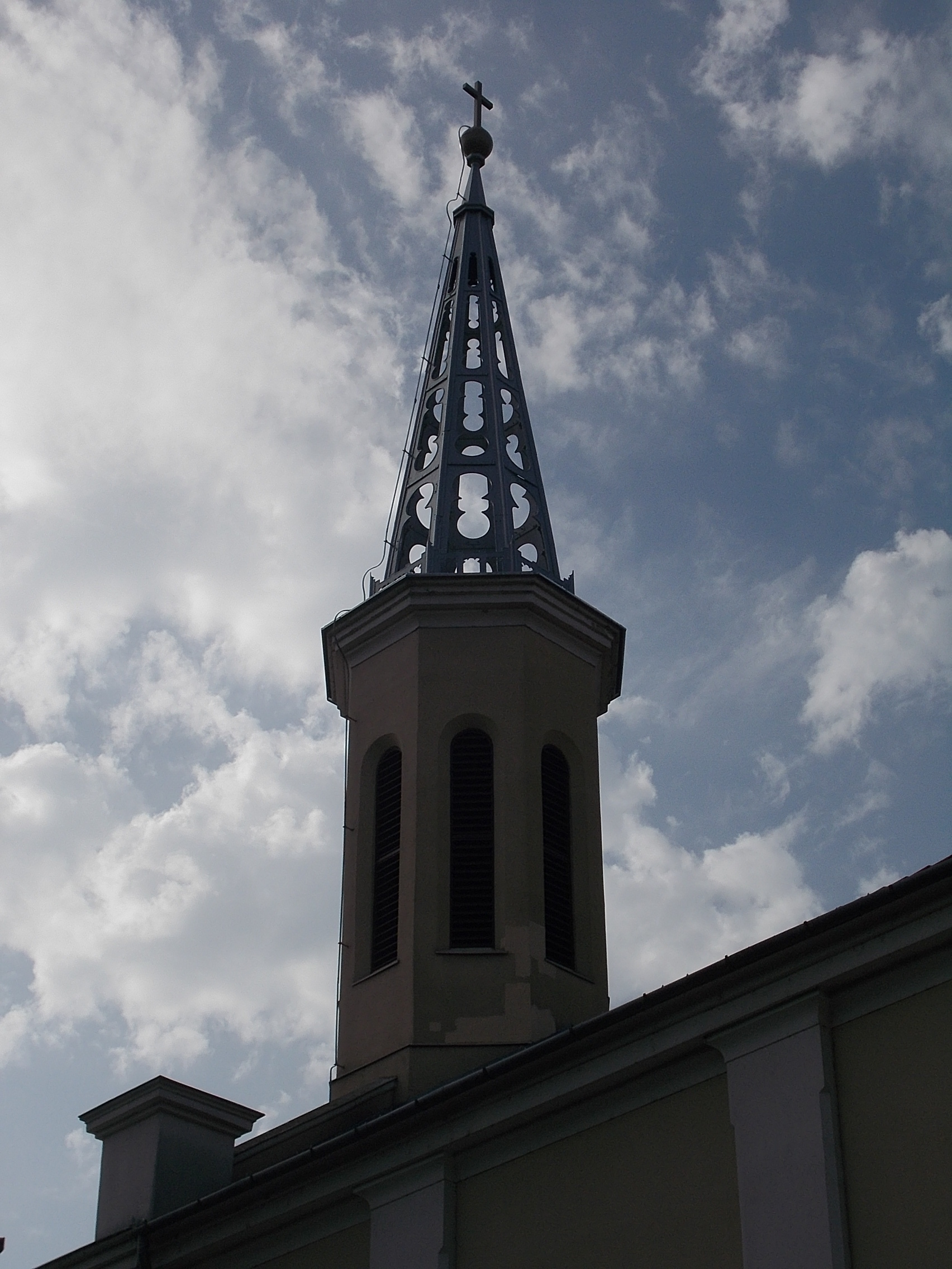 Evangelical Church of Vác. Planned by Edmund Krempe (architect from Budapest). Single nave Romantic church. - Széchenyi István Street, Vác, Pest County, Hungary